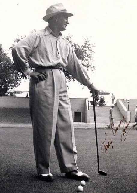 Autographed publicty photo of golfer Toney Penna